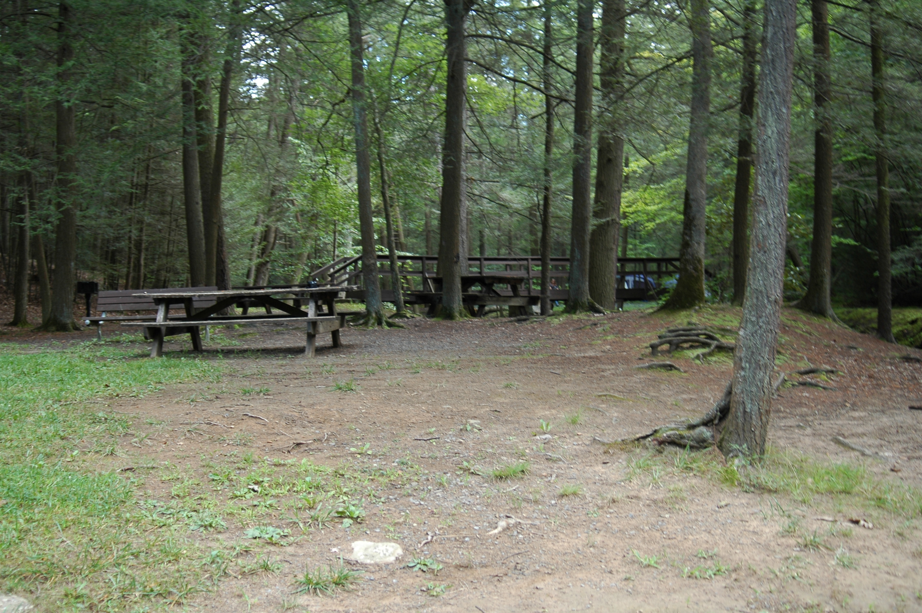 Picnic area at Reeds Gap State Park